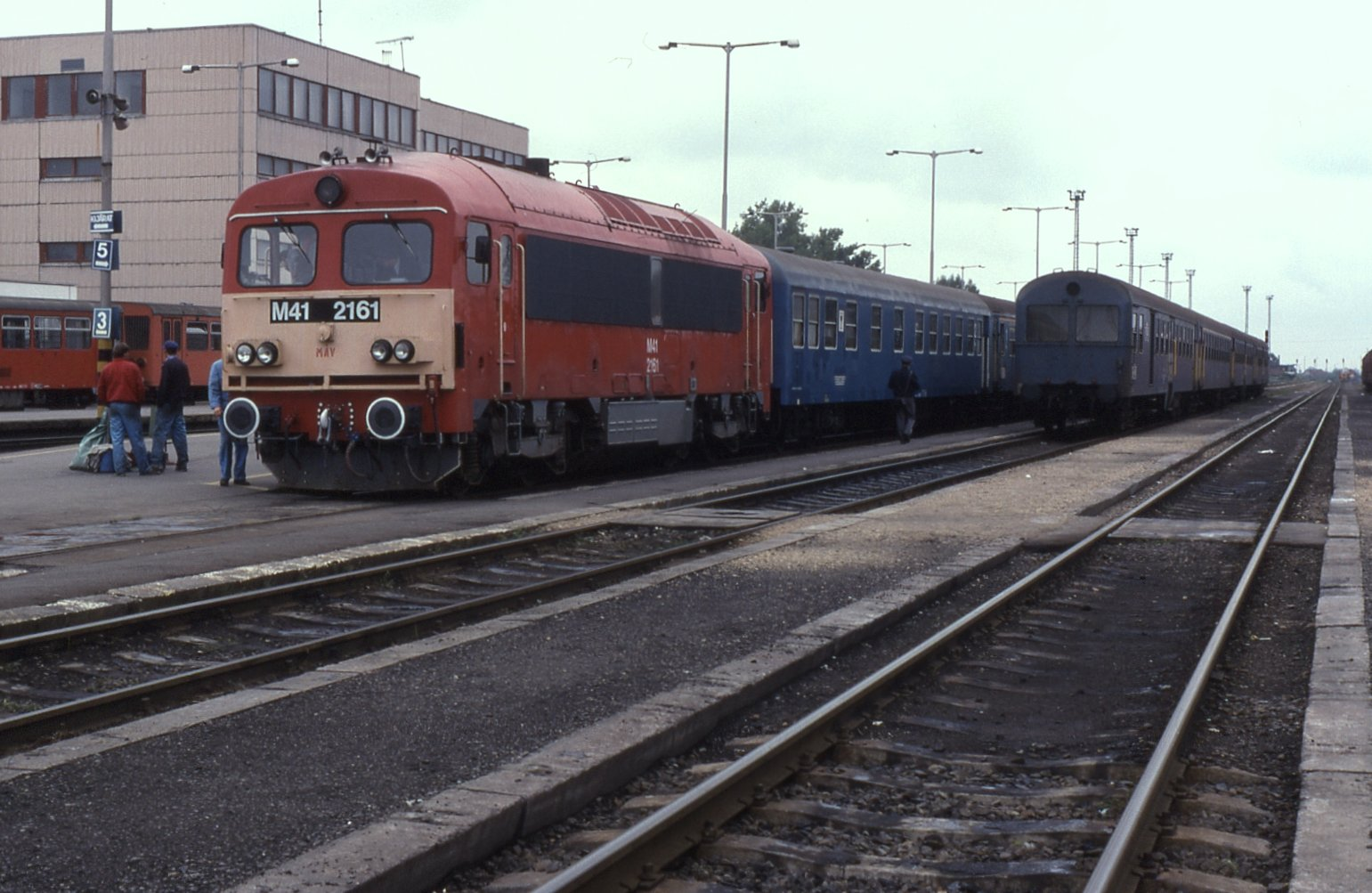 M41 2161 at Mátészalka on 18 September on a through service to Budapest. The M41 would work through to Debrecen.